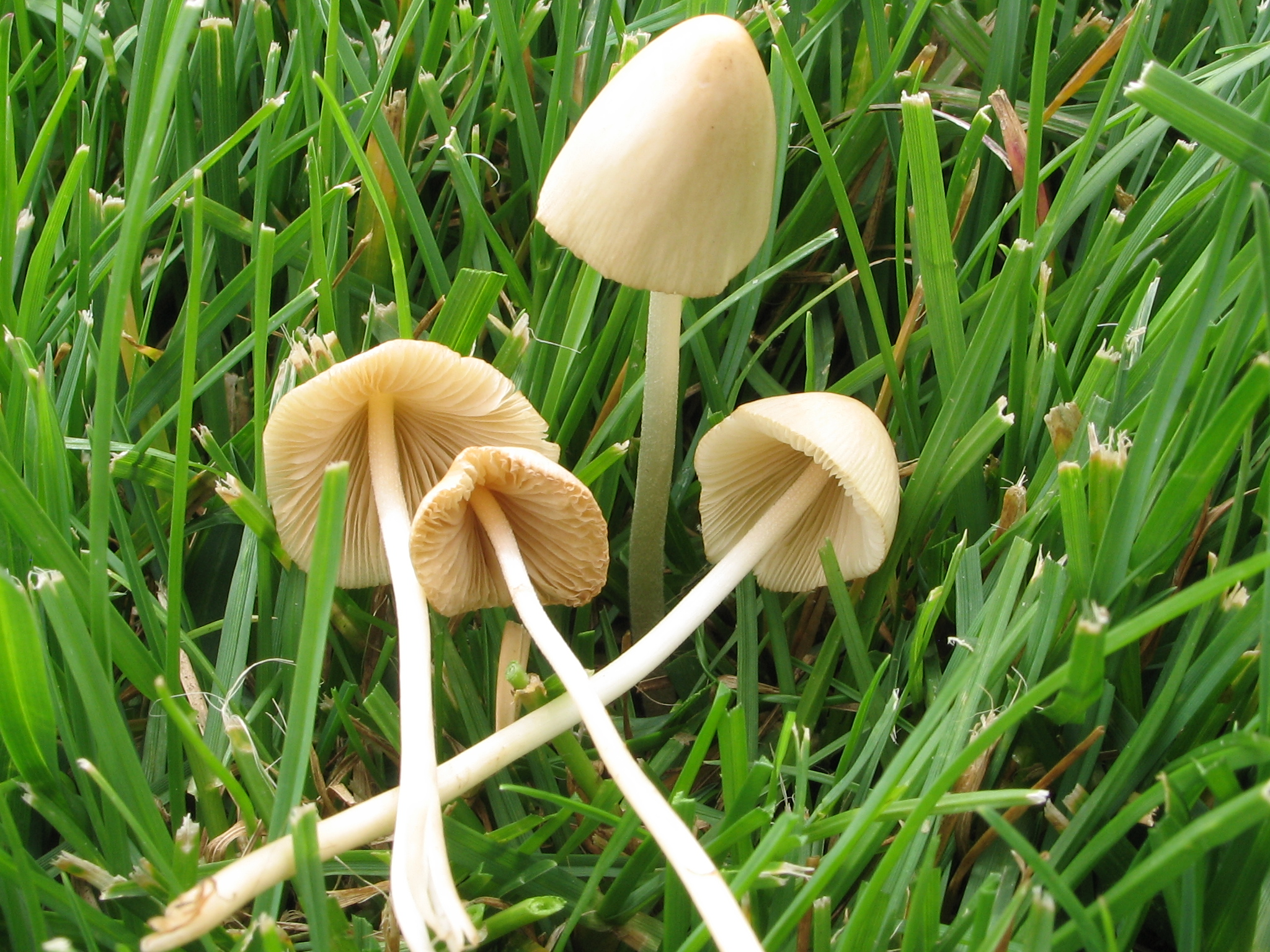 Conocybe apala (Fr.: Fr.) Arnolds Image location: Davis, California, USA Found in a large grassy field. Recognized by sight For more information about this, see the observation page at Mushroom Observer.